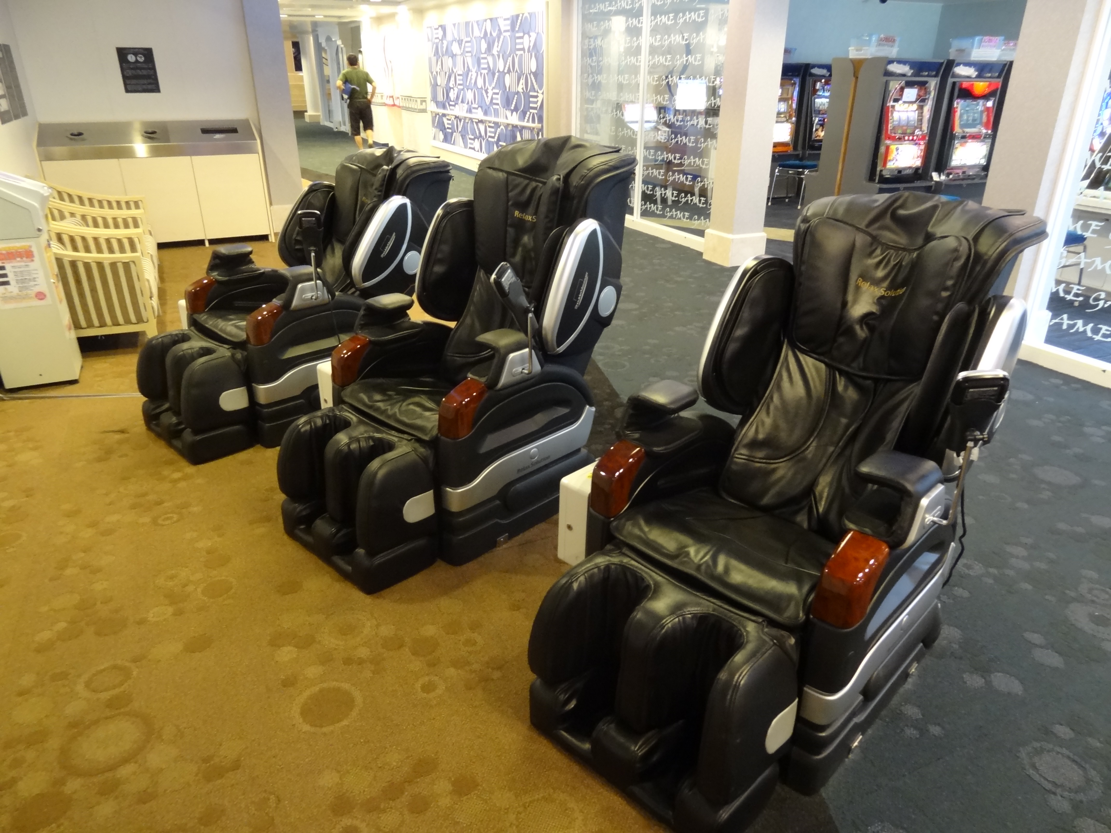 Massage chairs on Ishikari of Taiheiyo Ferry